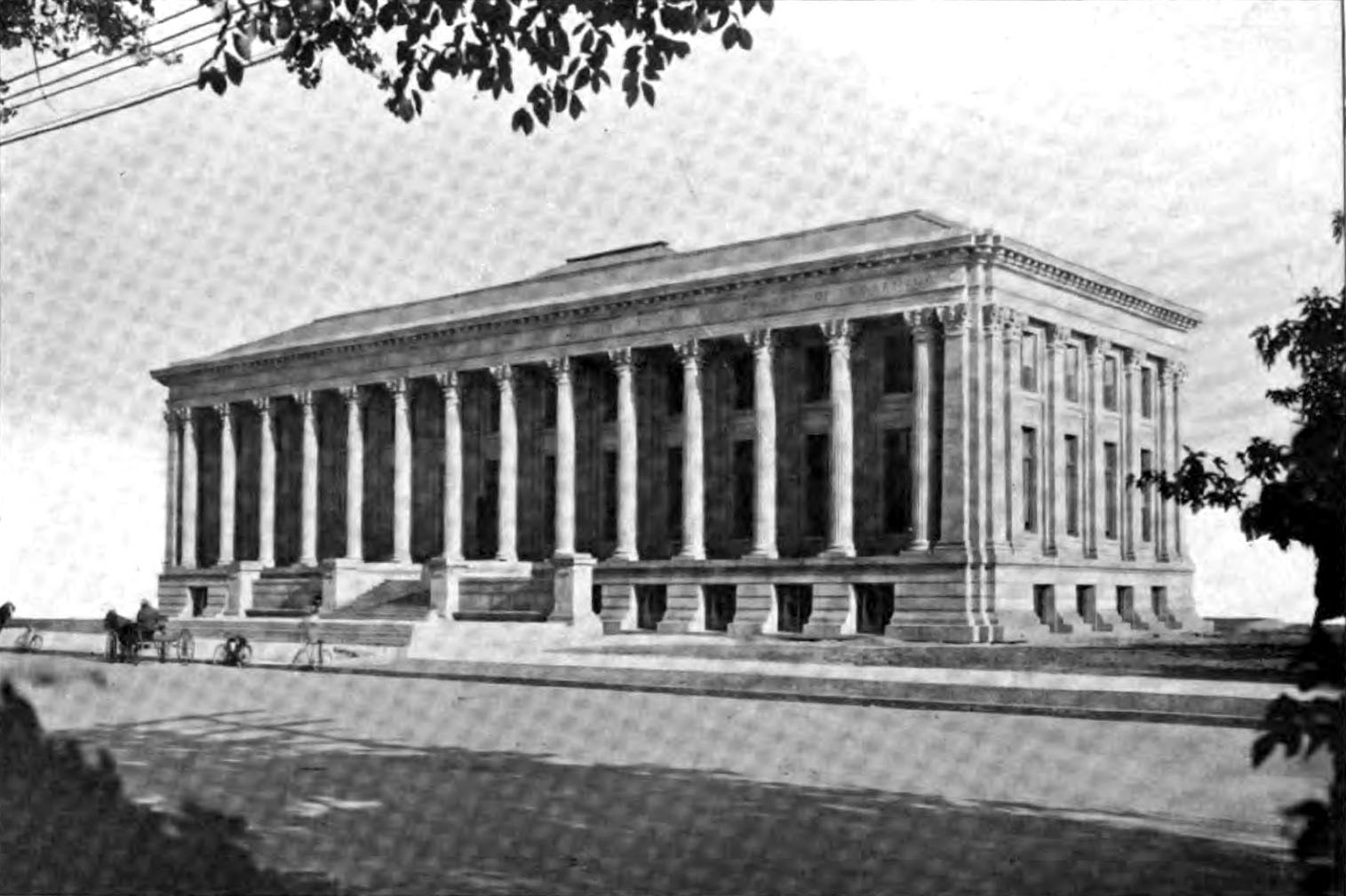 Photograph of The "Old Main" library in Civic Center Park.